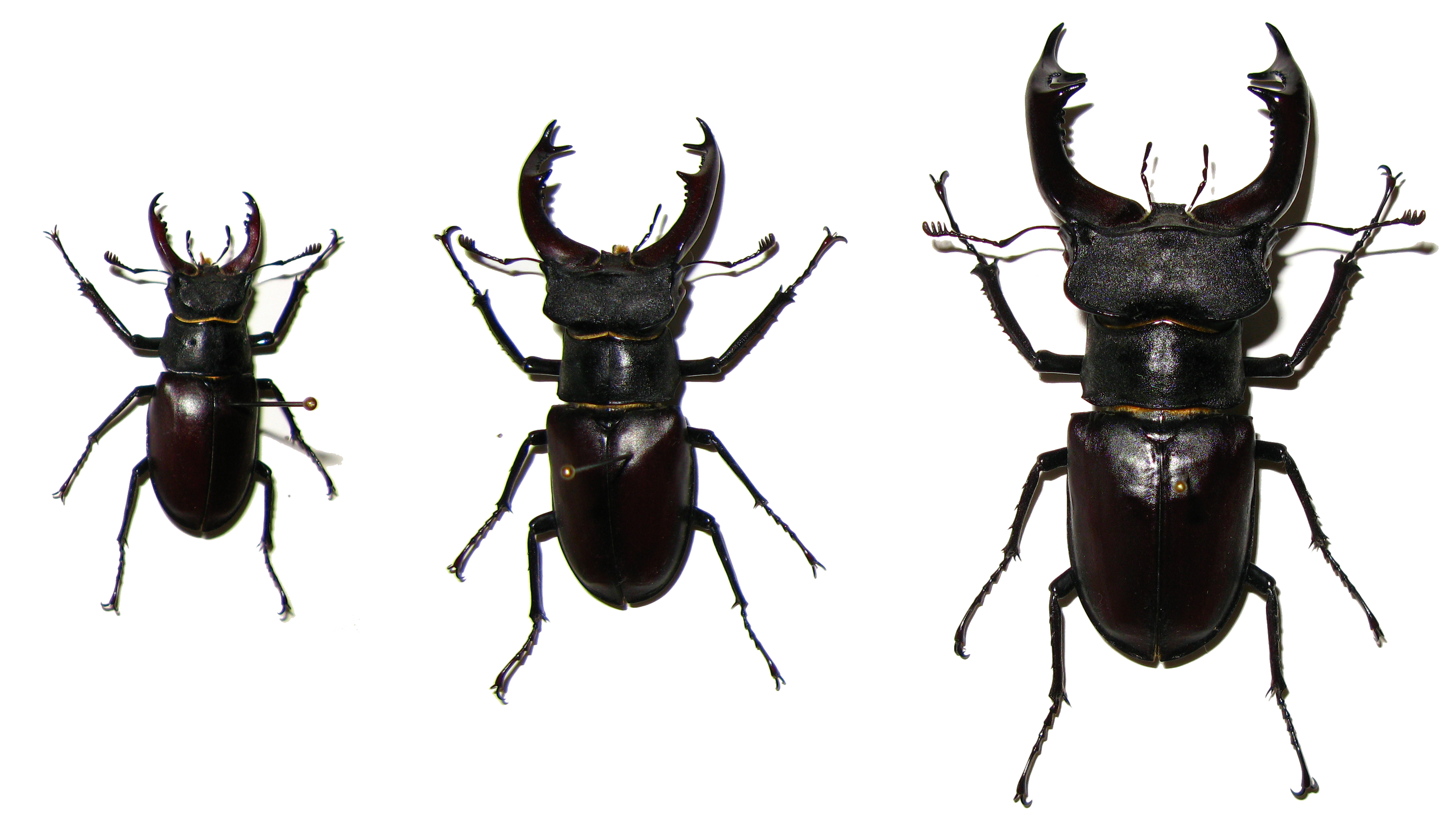 Lucanus cervus. f. minor f. media f. major